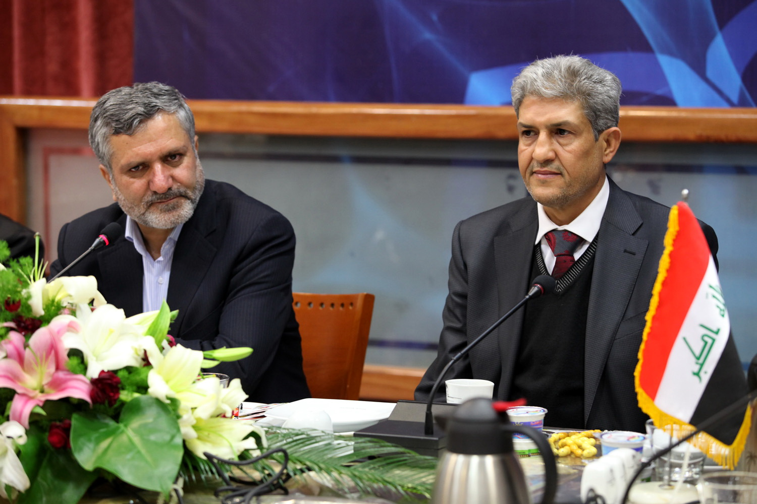 Mayor of Baghdad and Mashhad - meeting